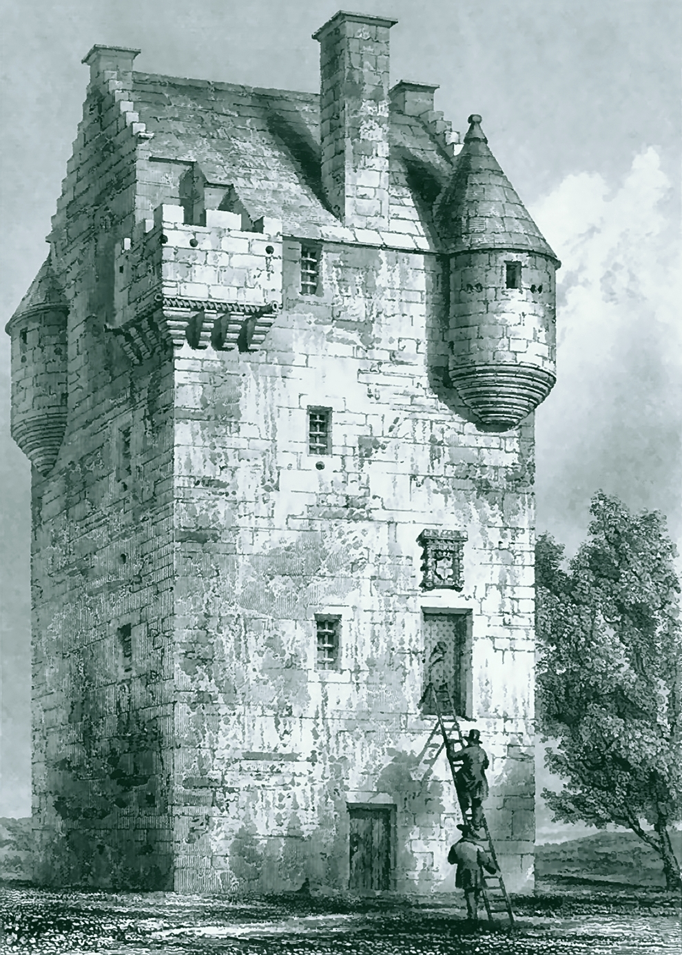 Coxton Tower, Scotland